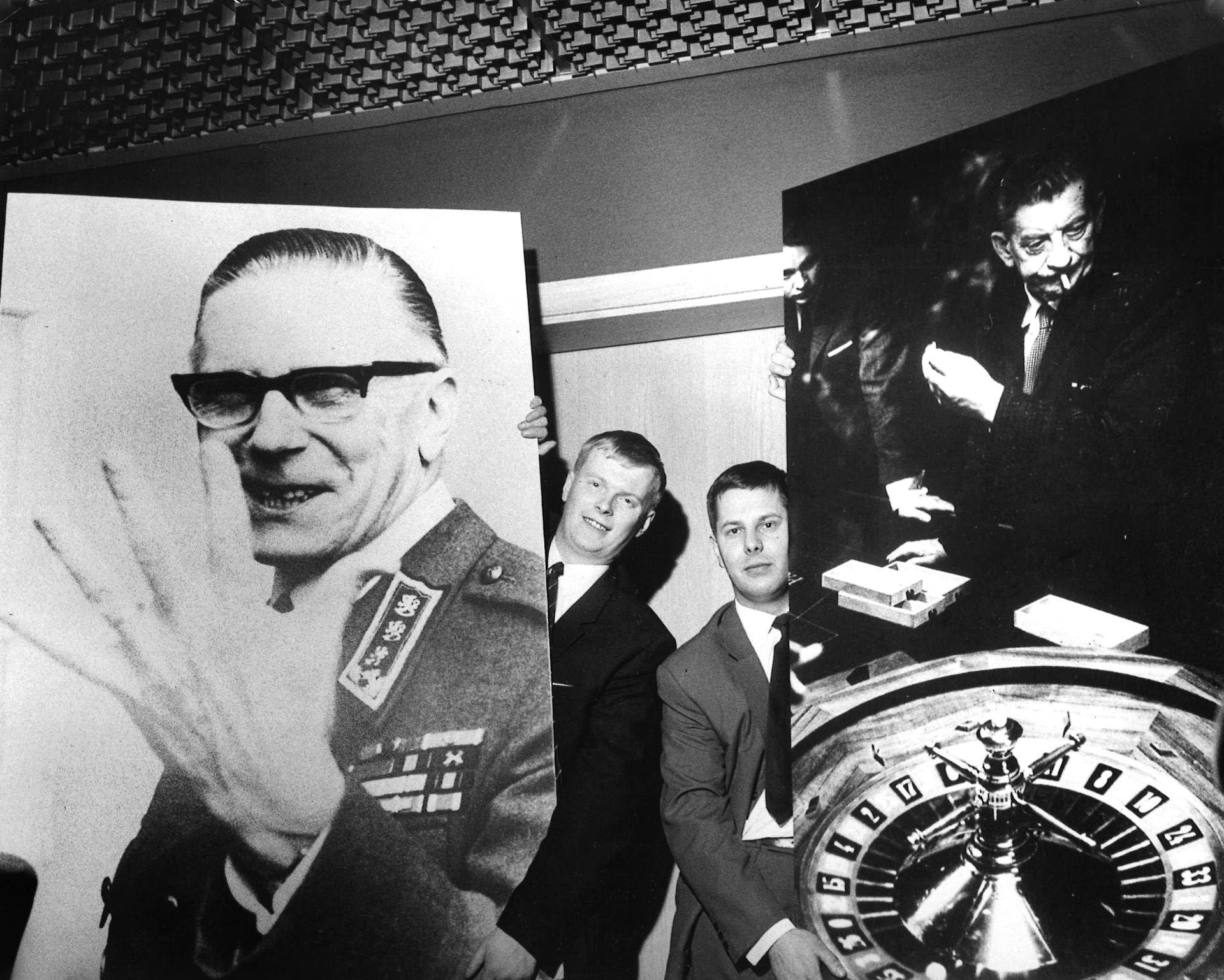 Photograph of the two Finnish photographers, Osmo Kuusisto (Hufvudstadsbladet) and Martti Brandt (Apu), who were awarded for the best press photographs of 1965. Kuusisto’s victorious photograph (action series) is labeled “Five mornings” and Brandt’s (feature series) “Roulette”